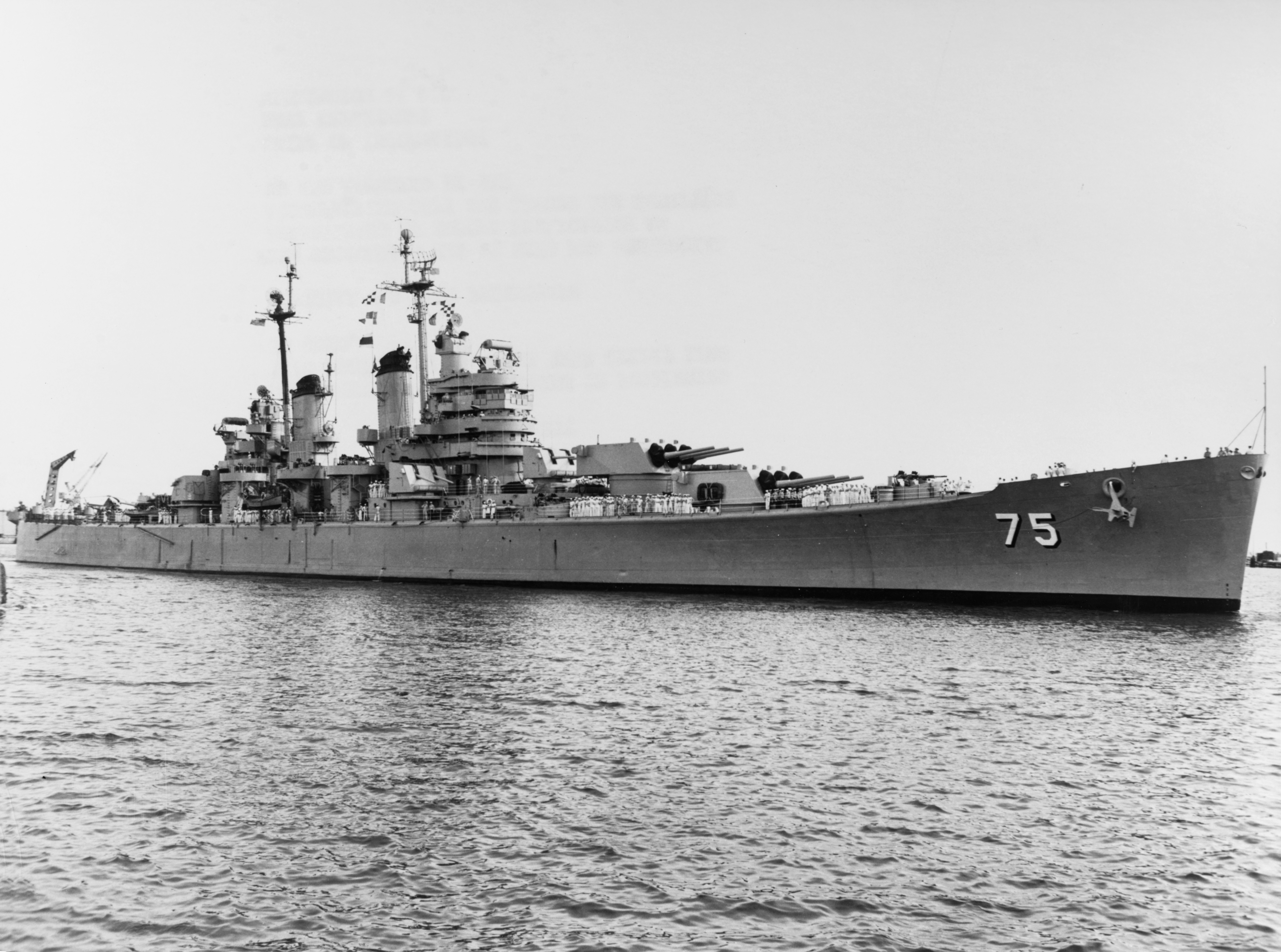 The U.S. Navy heavy cruiser USS Helena (CA-75) in Apra Harbor, Guam, in December 1952, while en route to the U.S. following her third Korean War combat tour. During this voyage, she carried President-Elect Dwight D. Eisenhower and his party from Guam to Pearl Harbor.